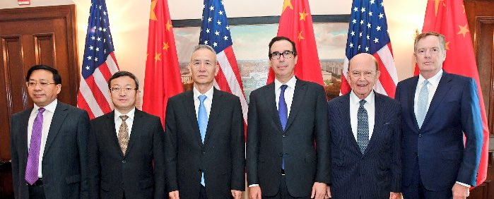 Met with Vice Premier Liu He and the Chinese trade delegation @USTreasury today with @CommerceGov @USTradeRep. We held important discussions on rebalancing the U.S.-China trade relationship.